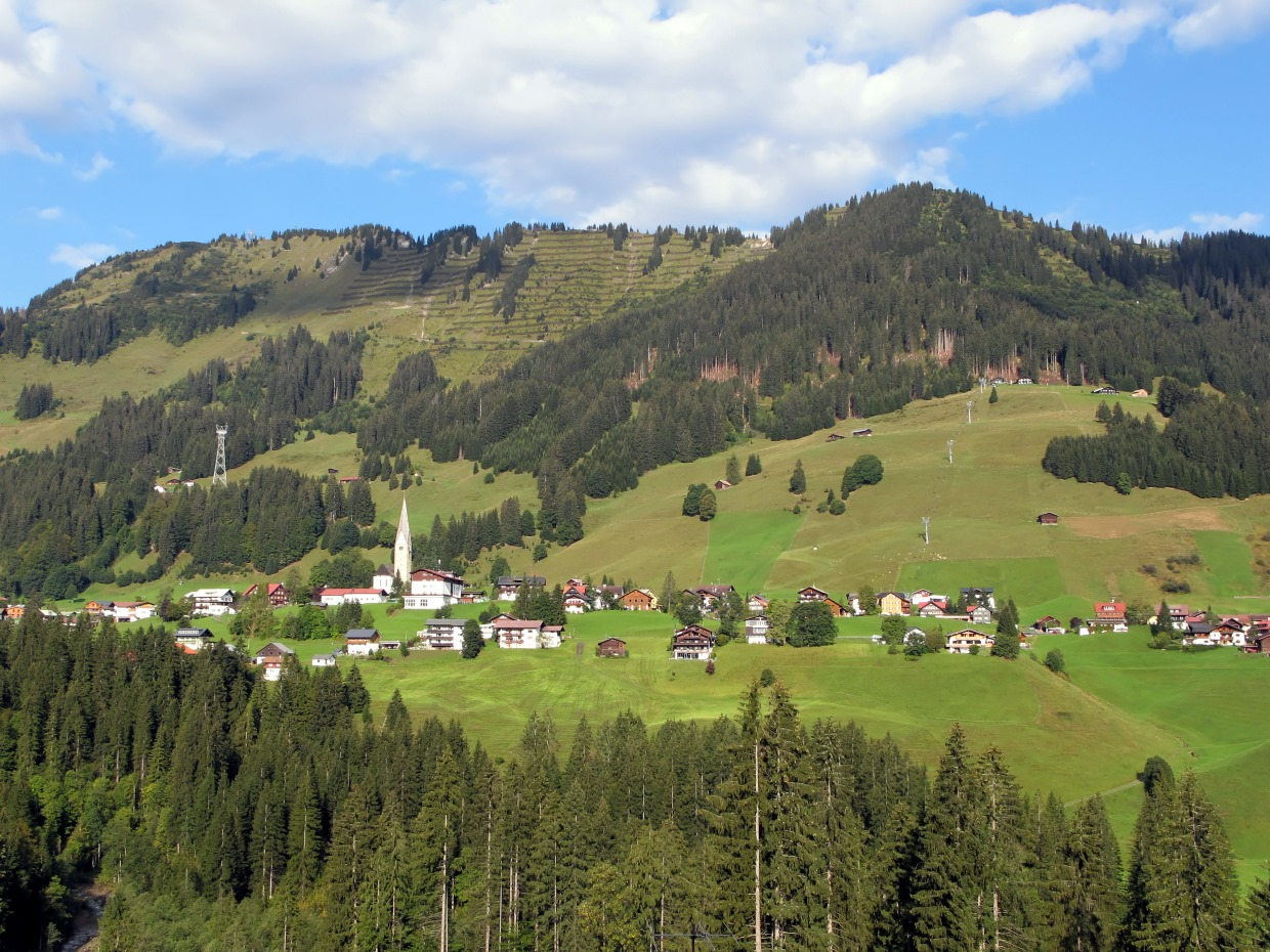 Hamlet of "Mittelberg" in Valley Leinwalsertal (Austrian Alps)